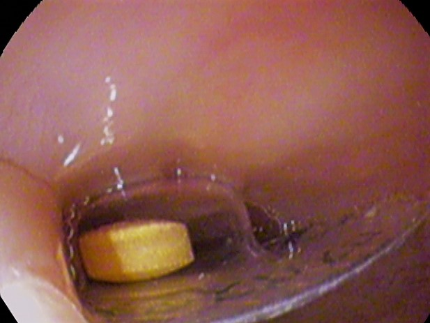 Foreign body in esophagus, PTP(Press Through Packages), female, 53 y.o.